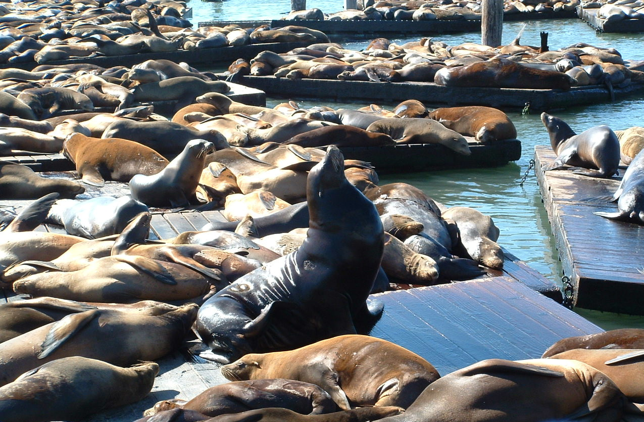 Hundreds of California Sea Lions sunbathing on Pier 39 in San Francisco. Taken by Reywas92 on October 16, en:2003.